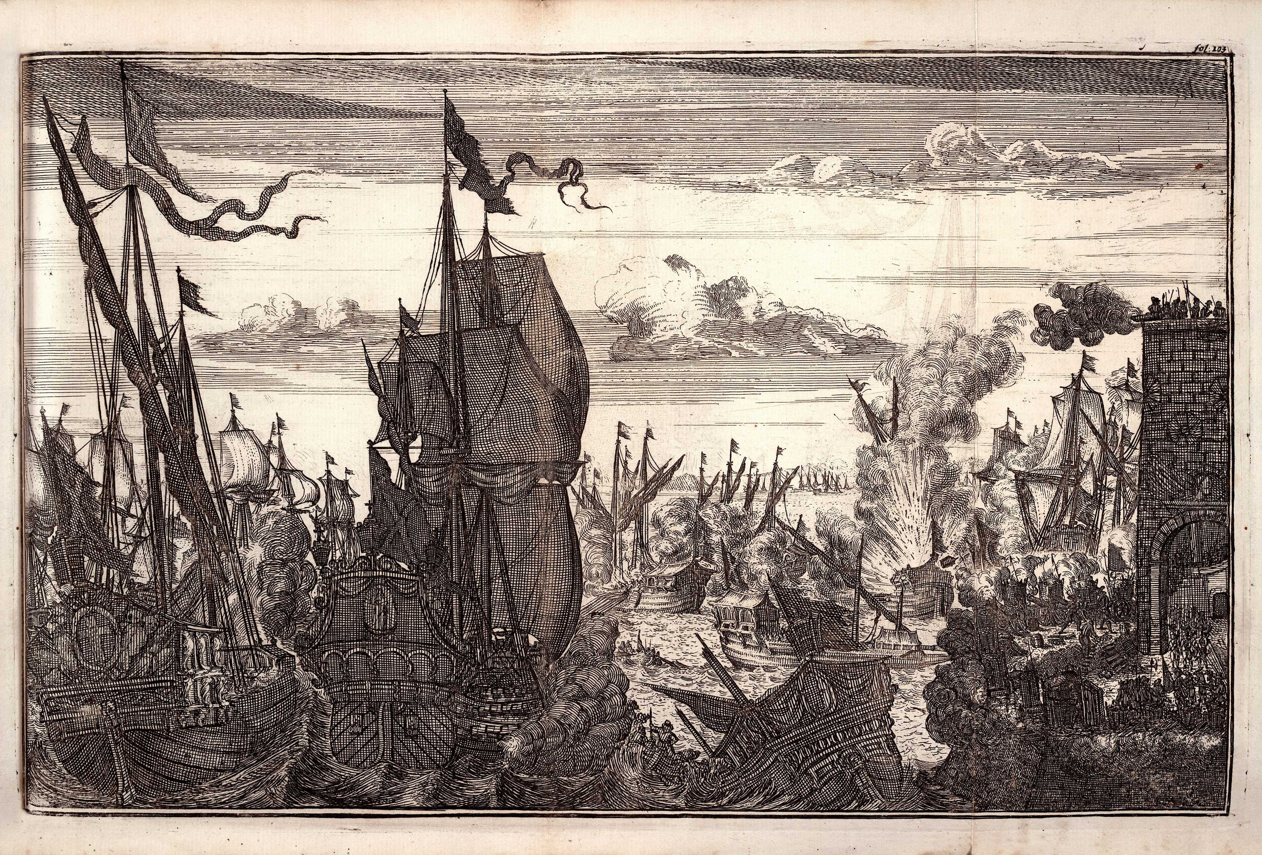 Page number 25 of The Buccaneers of America